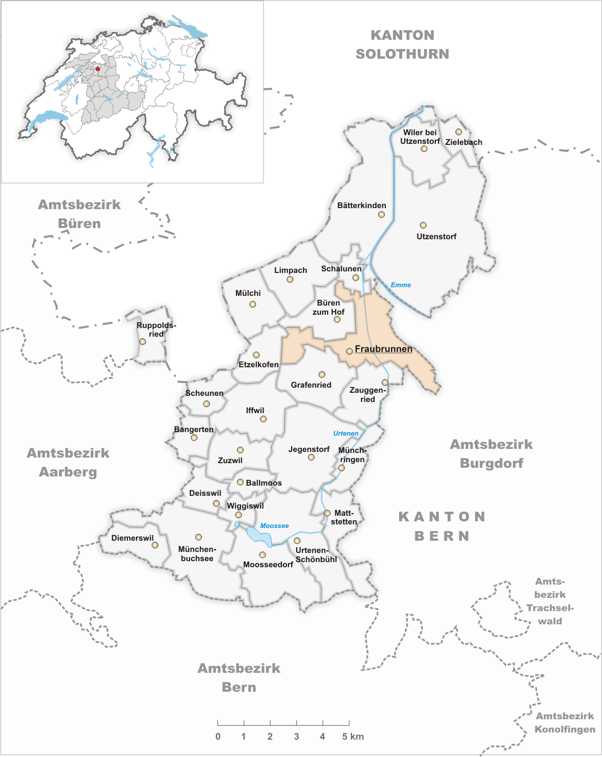 Municipality Fraubrunnen